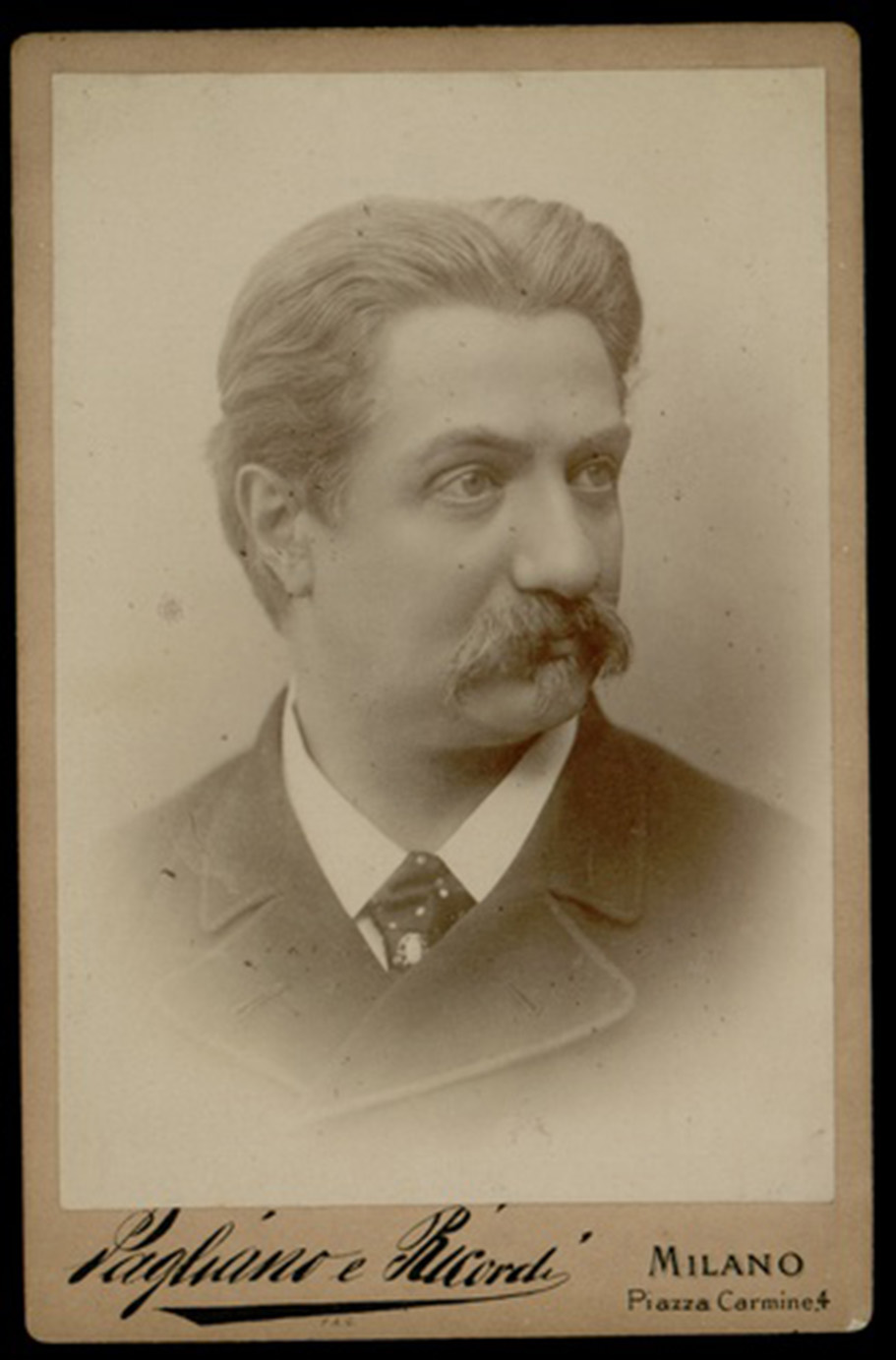 Portrait of Paolo Giorza, composer (1832-1914). Photo by Pagliano & Ricordi, before 1914.